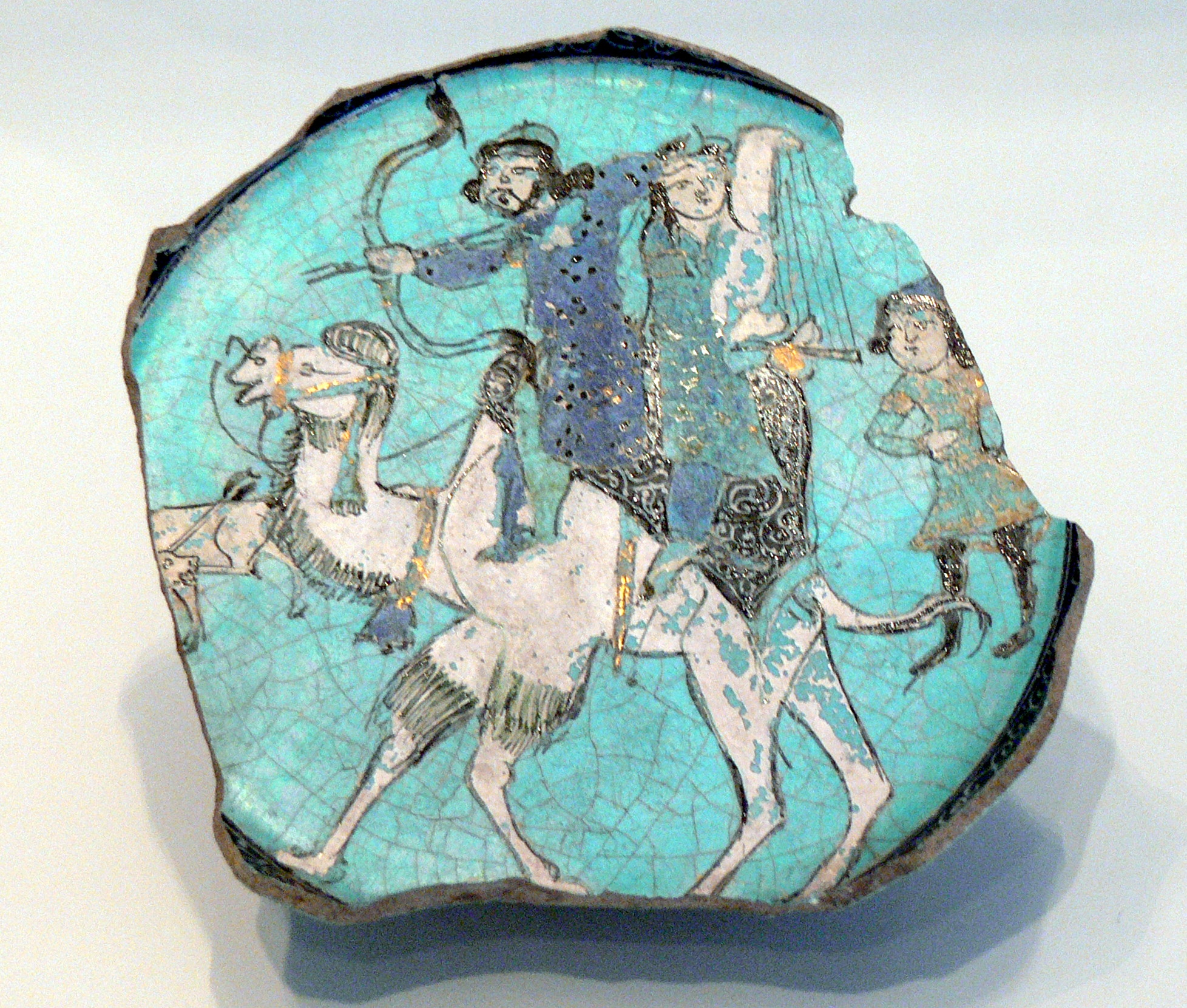 Coming from Kashan (Iran)